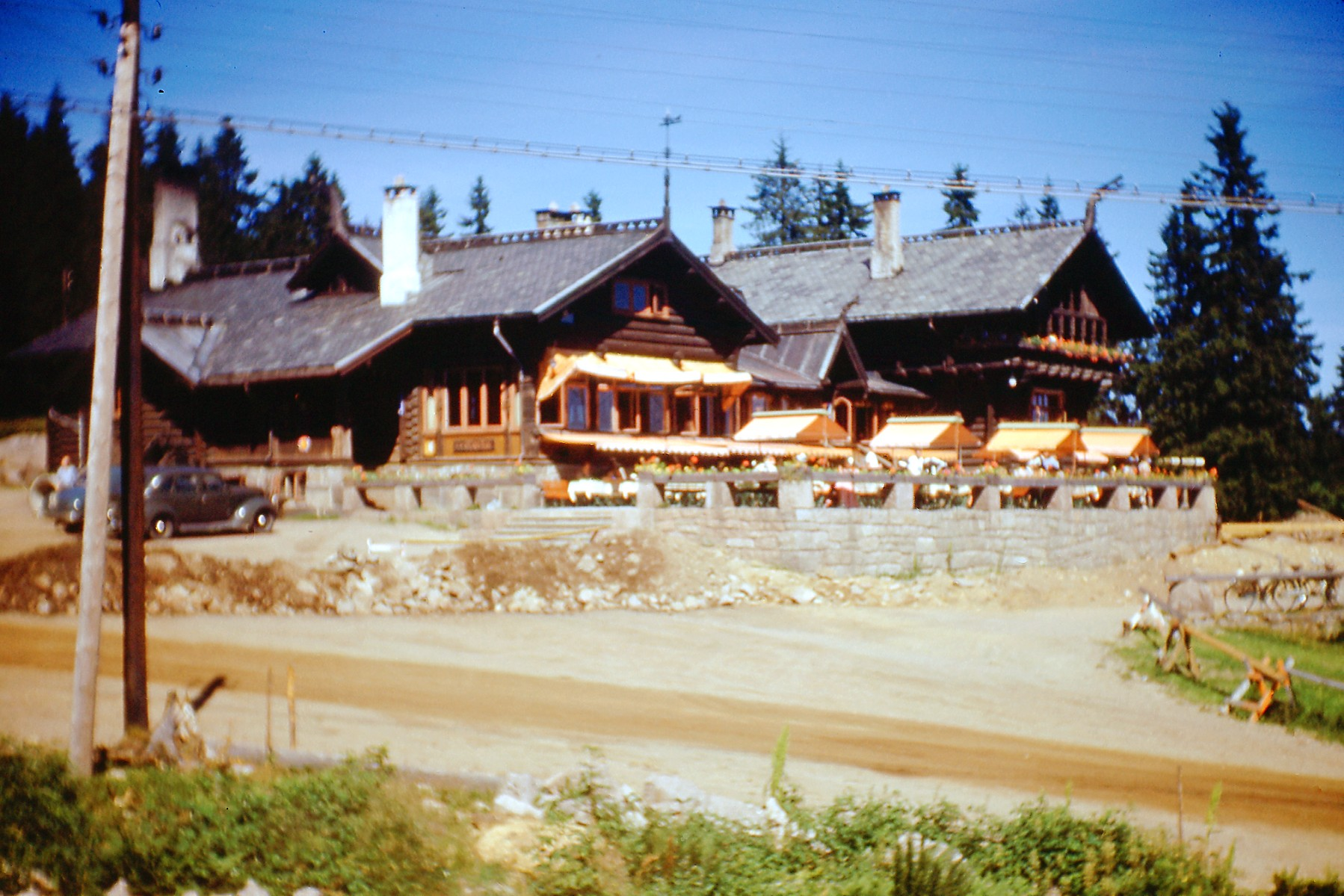 Frognerseteren in Oslo, Norway.